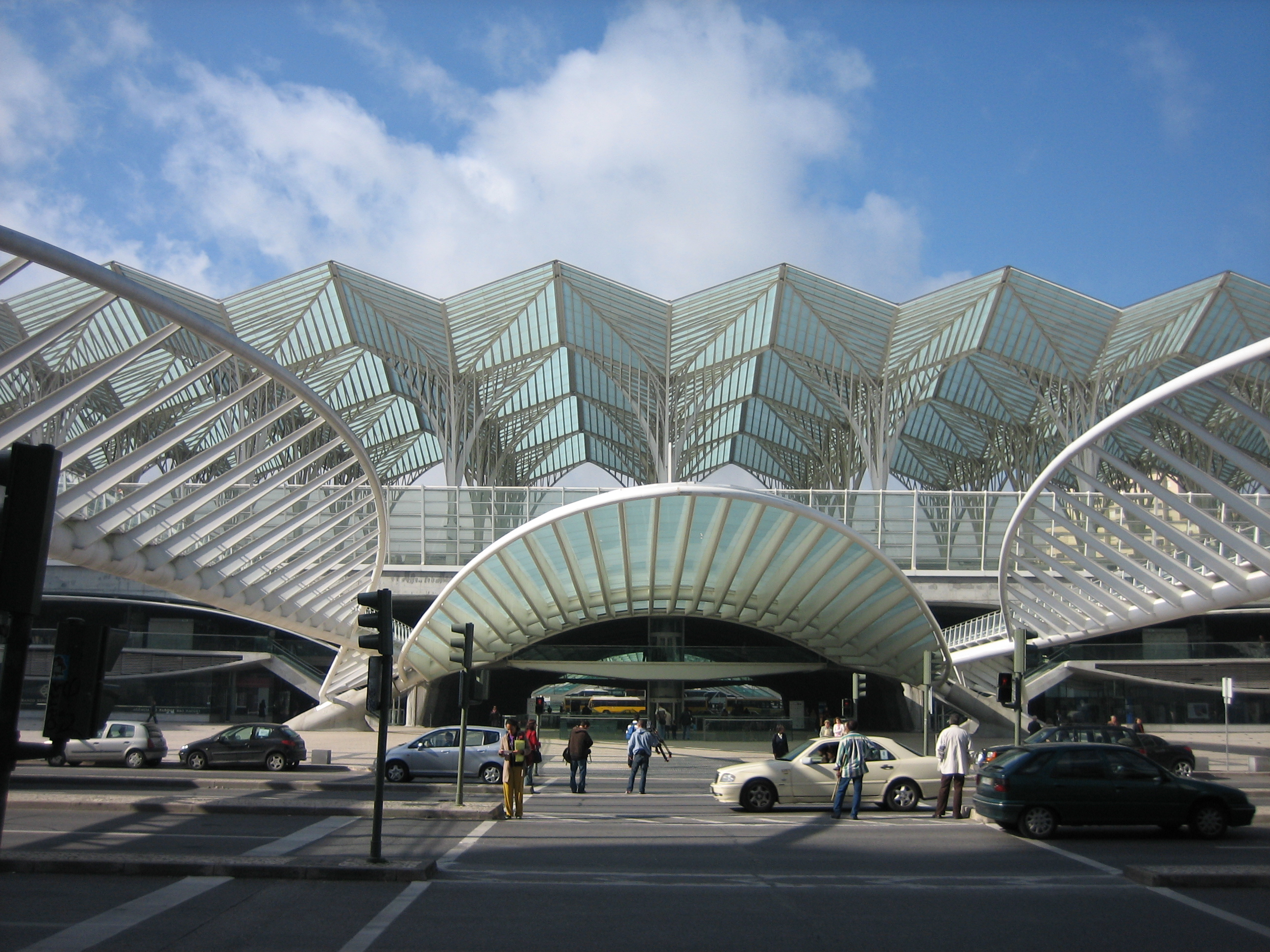 Gare do Oriente train station, Lisbon, Portugal